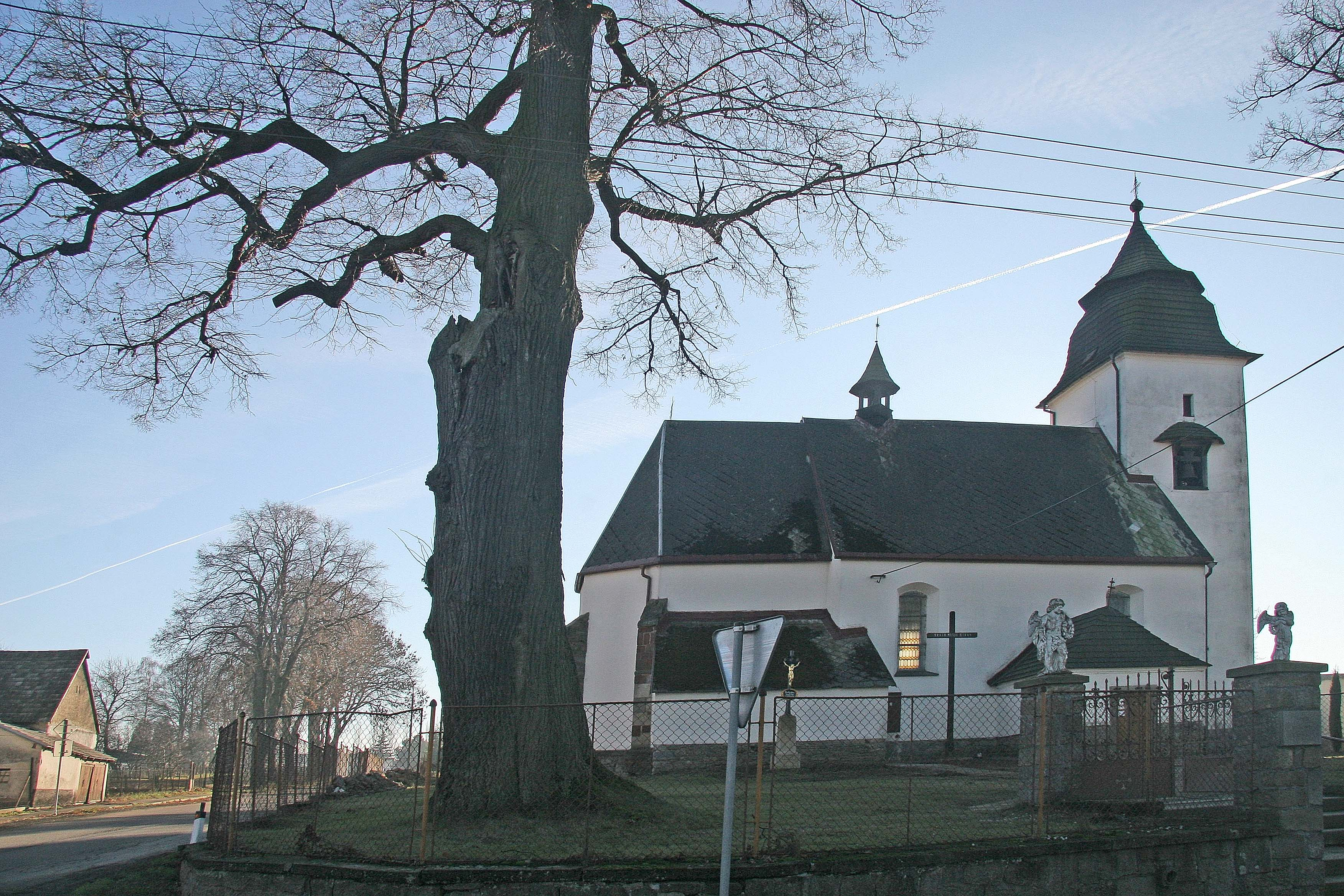 Church of the Assumption in Číhošť, Havlíčkův Brod District, Czech Republic.